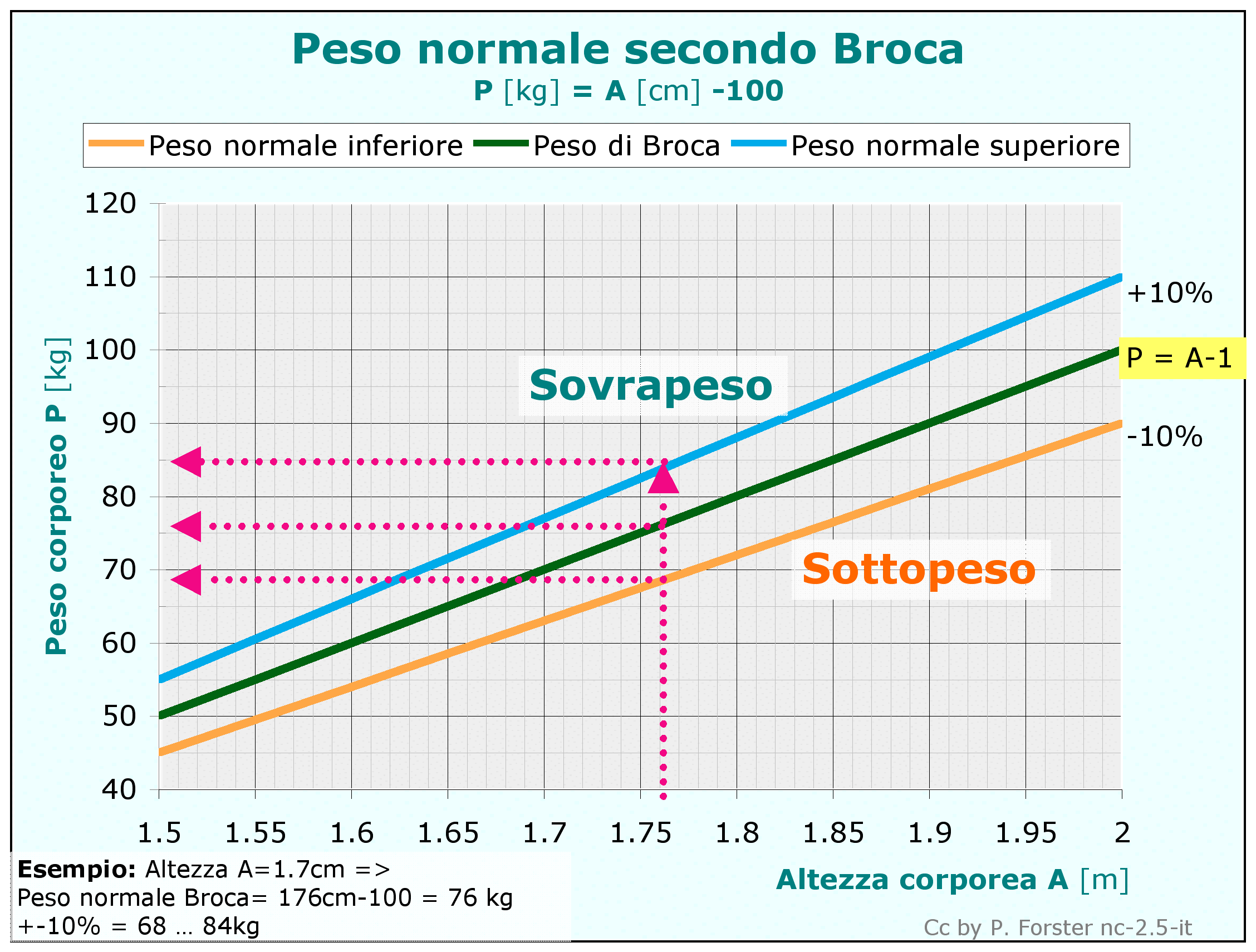 Body weight, Broca, BMI